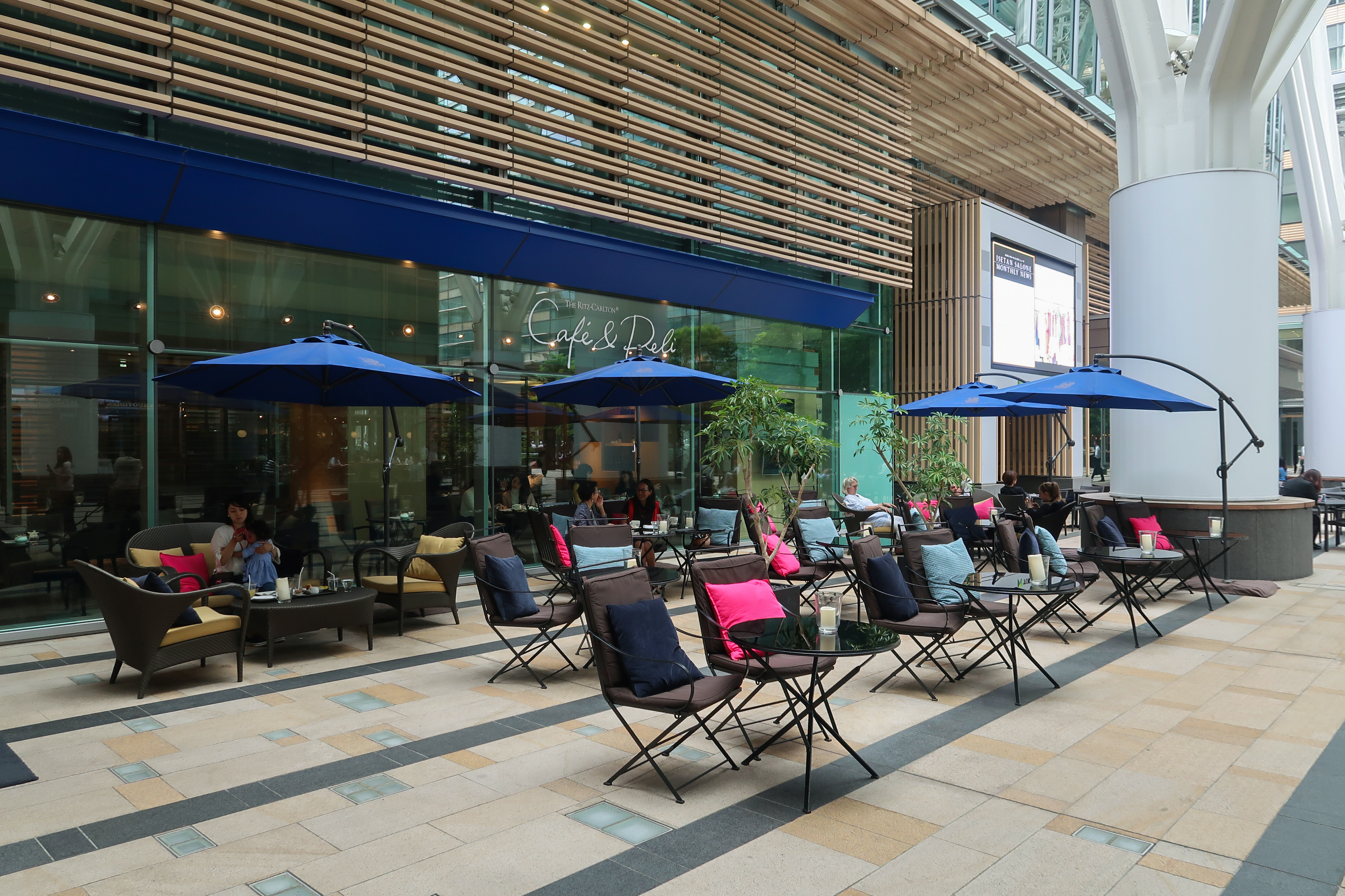 The Ritz-Carlton Tokyo cafe & deli